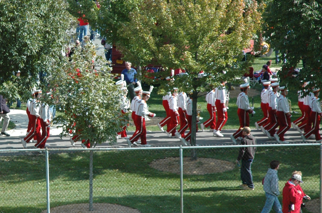 The Iowa State marching band in the pregame parade in 2005.